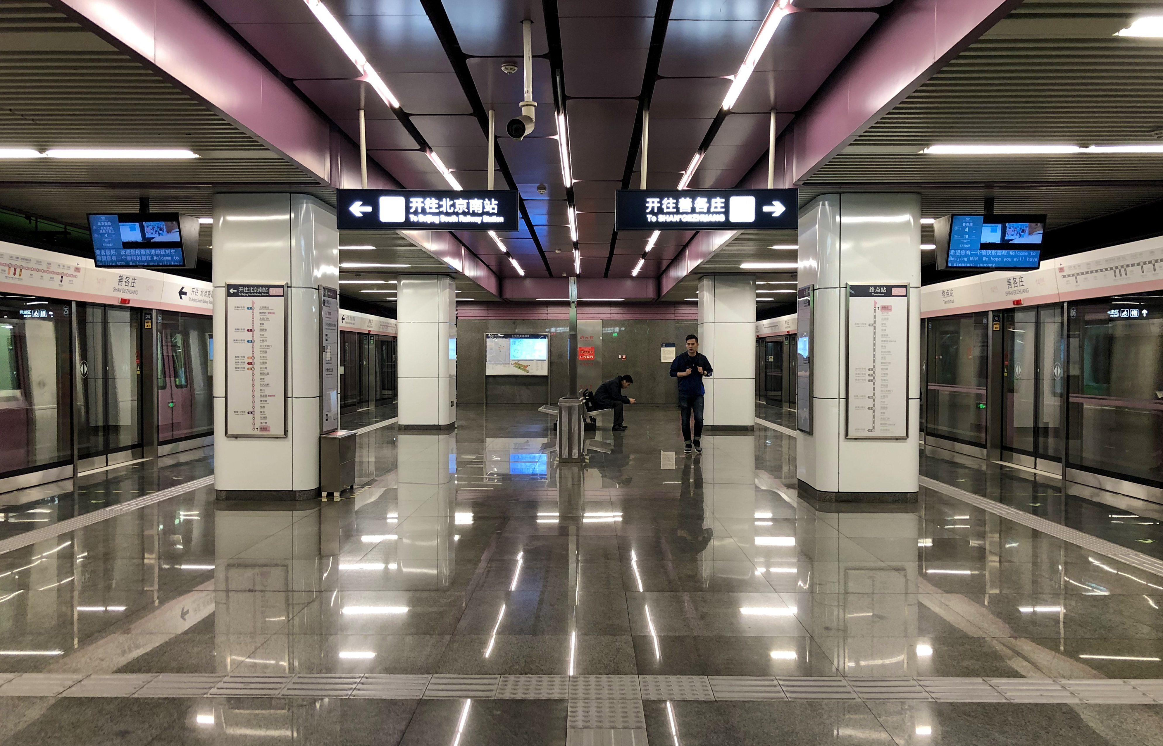 Northeastern end.